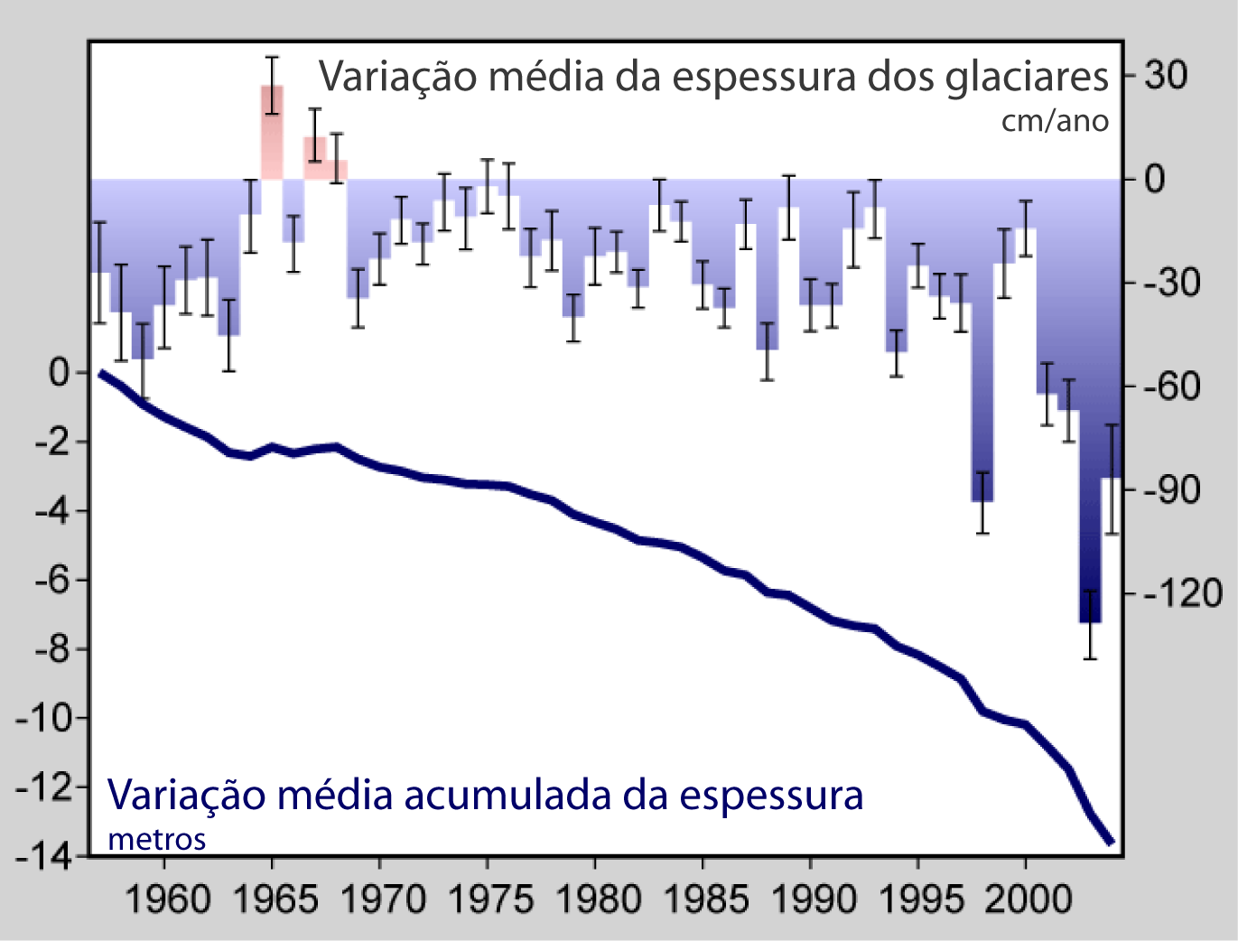 Derivative work from the file Image:Glacier_Mass_Balance.png